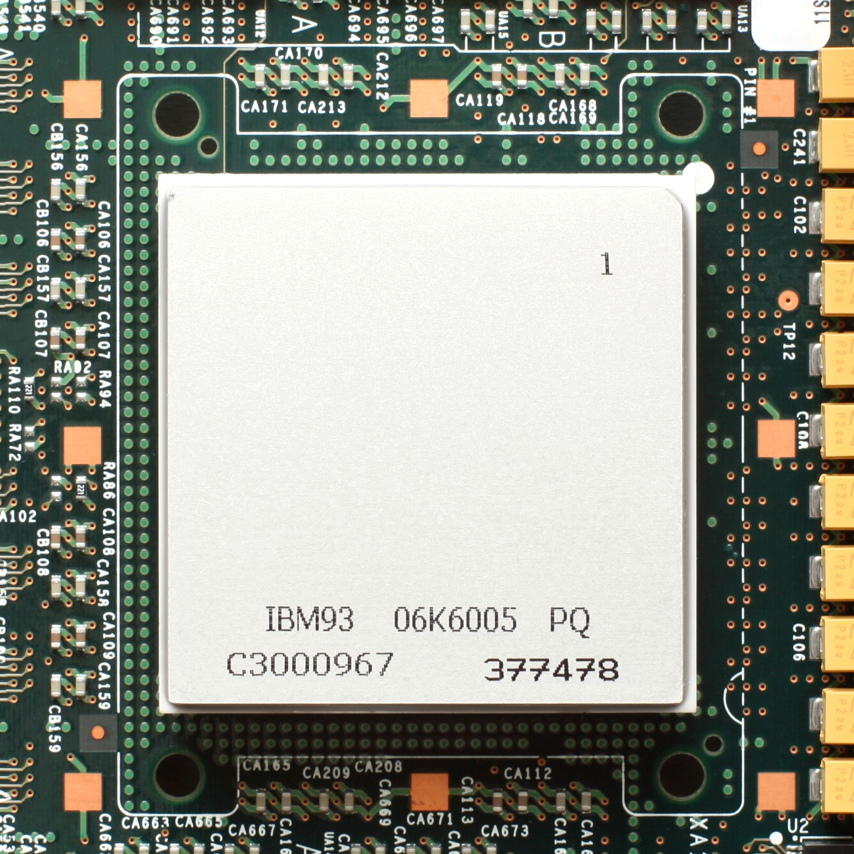 CPU IBM Power3-II.